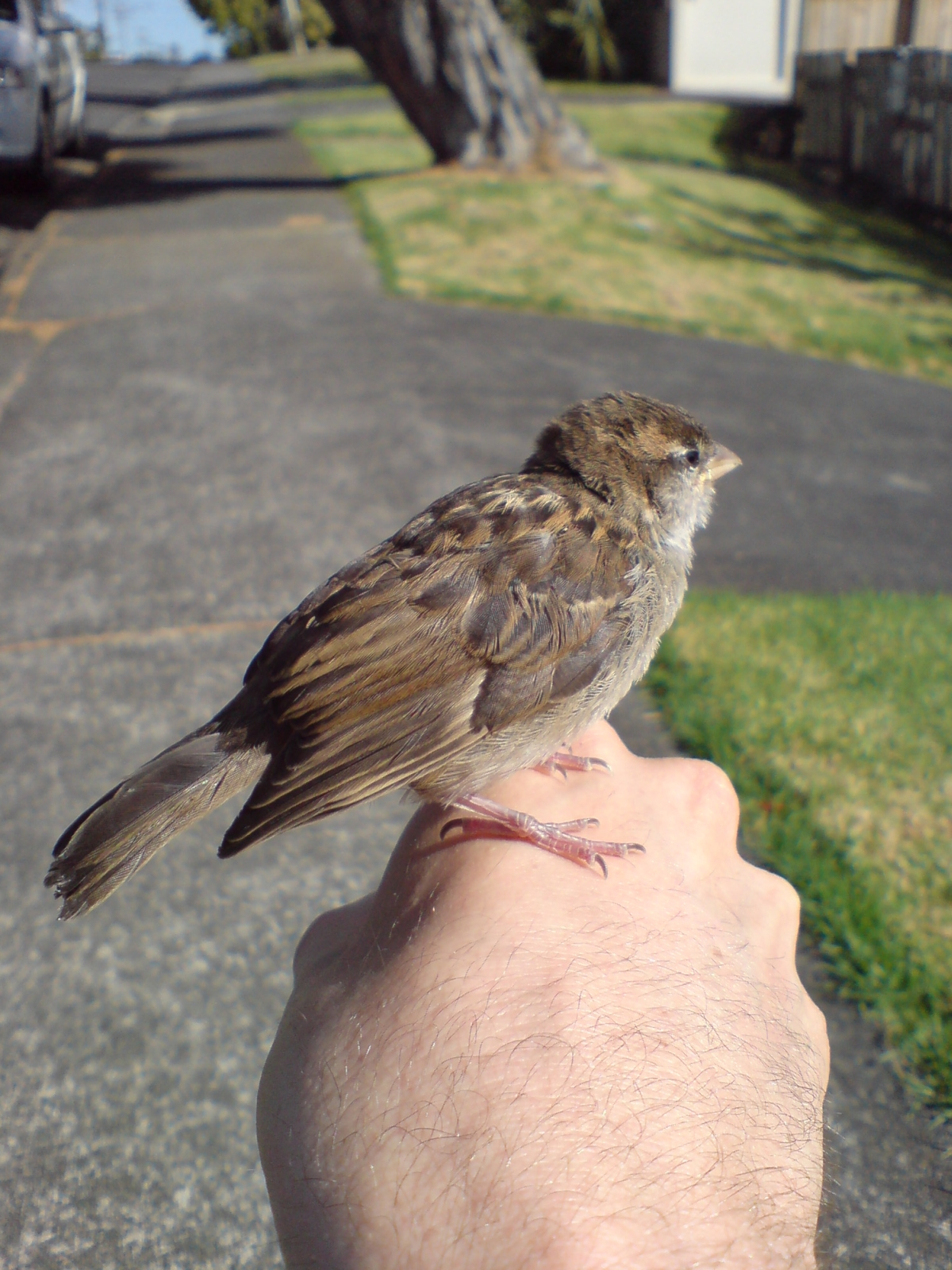 Juvenile House Sparrow (Passer domesticus). A little bird showing an example of how friendly (read: naive of possible danger) New Zealand birdlife can be. I picked him up after almost stepping on him (you don't expect them to simply remain sitting on the footpath when you walk up!). Thought he might be hurt. While he didn't like being cooped up in the hollow of my hands, he simply climbed out and on top of my hand, sitting there peacefully for almost a minute, before flying away all spry and healthy. Taken in a Manukau City suburb.